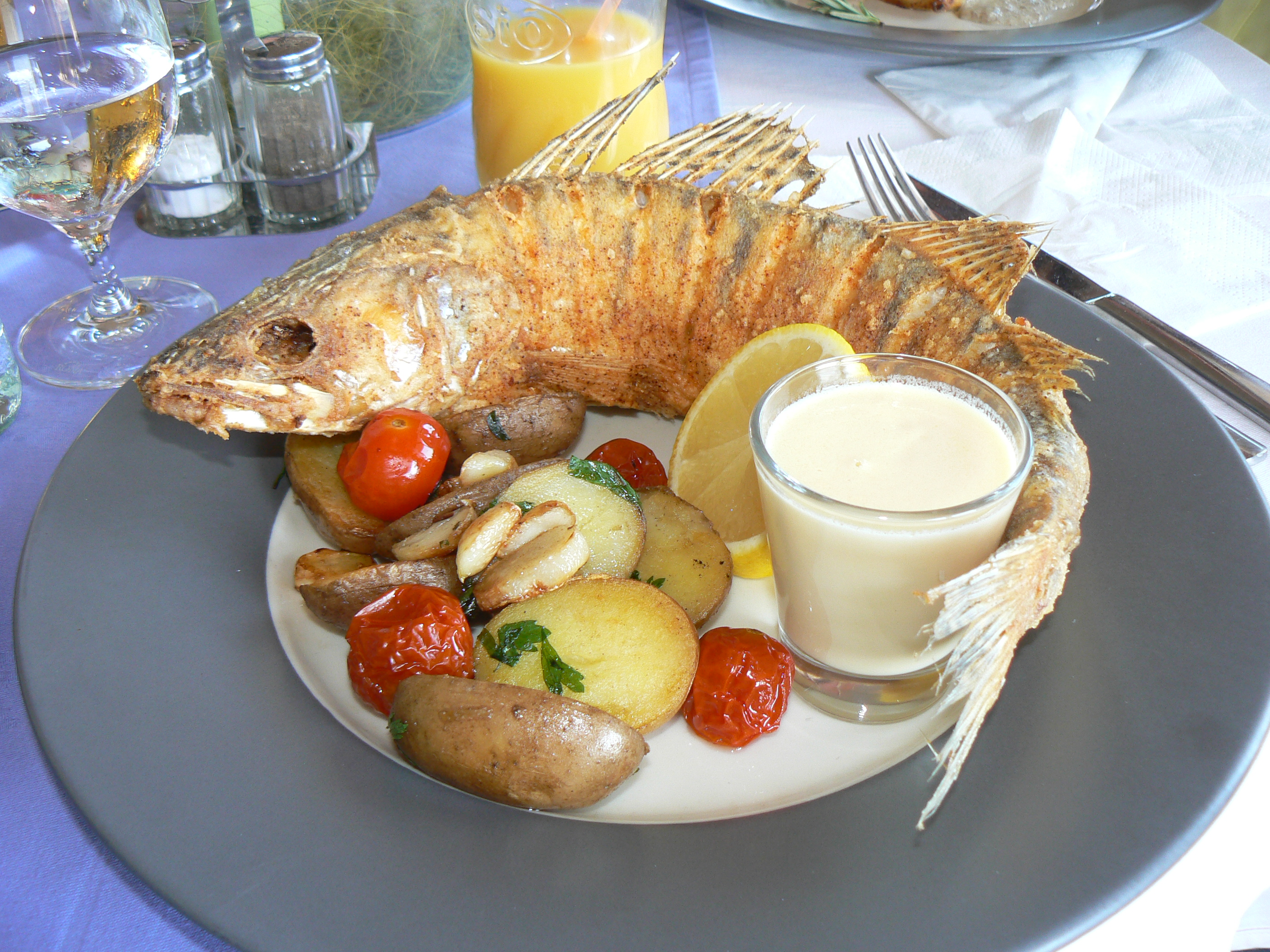 Whole baked zander with parsley potatoes browned in butter, served with Hollandaise sauce.